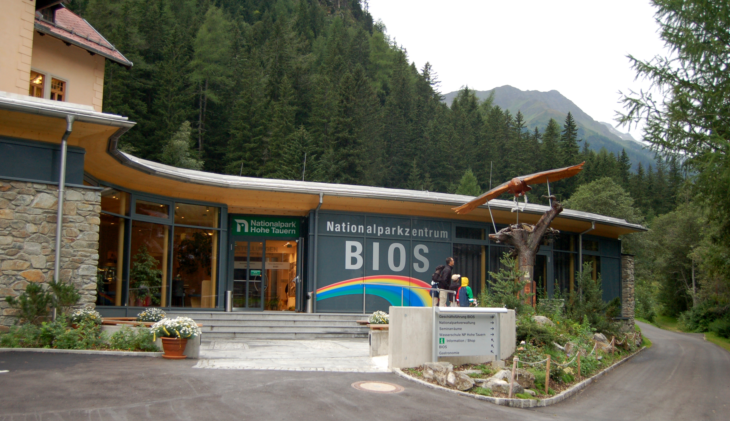 The BIOS museum in Mallnitz, a museum of the Nationalpark Hohe Tauern.